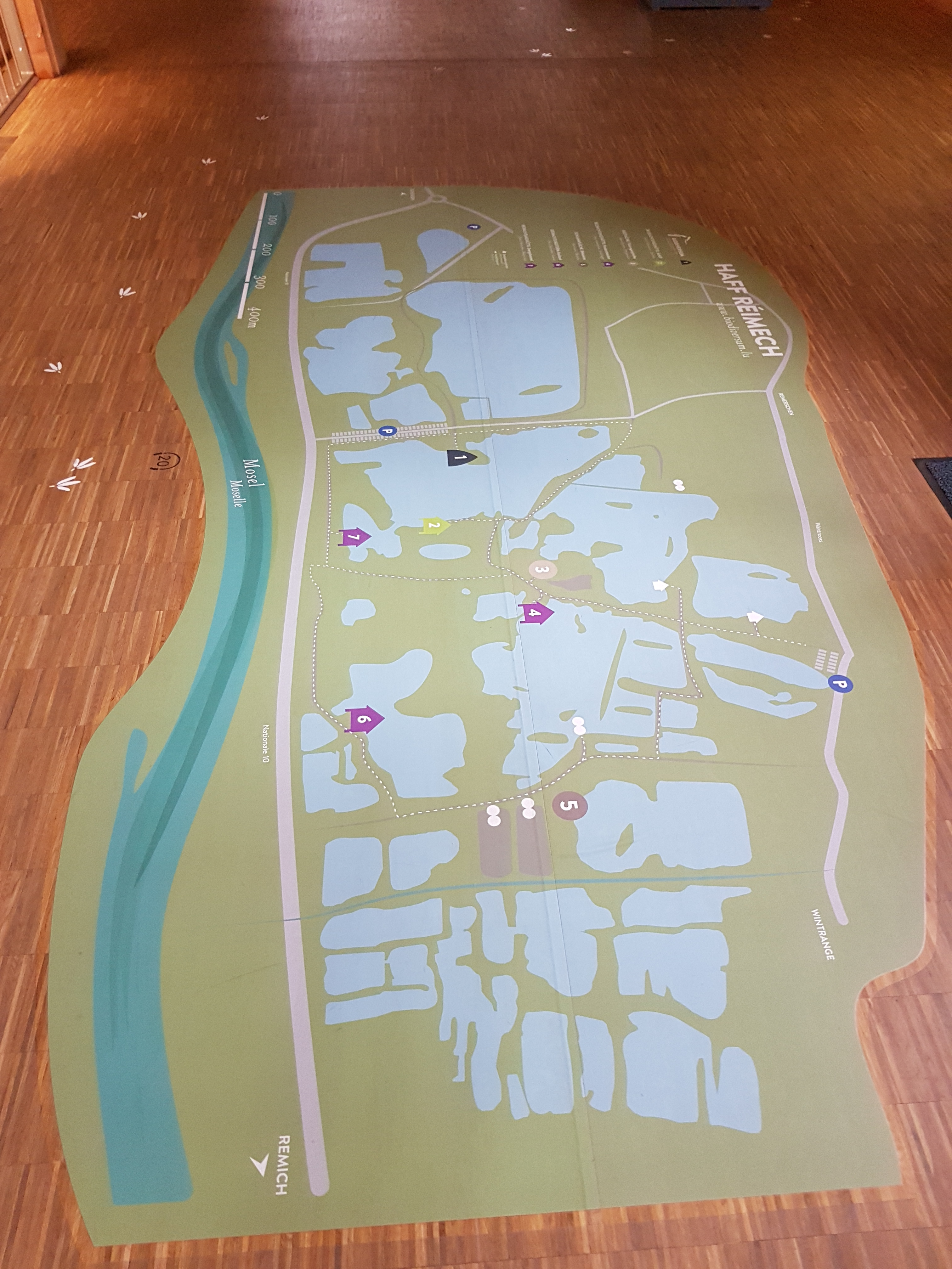 Nature Conservation Center / Visitor Center "Biodiversum - Camille Gira" (formerly "Nature et Forêt Biodiversum") in Remerschen (lux .: Rëmerschen or Riemëschen), municipality of Schengen in the Grand Duchy of Luxembourg. Architect: François Valentiny.